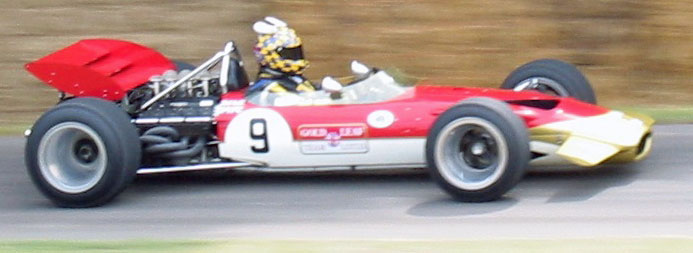 1968 Lotus-Cosworth 49B F1 car at the 2005 Goodwood Festival of Speed